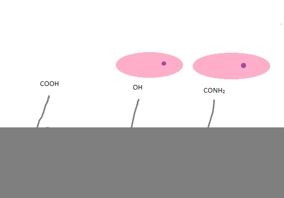 Cell adhesion to charged groups using photolithography.